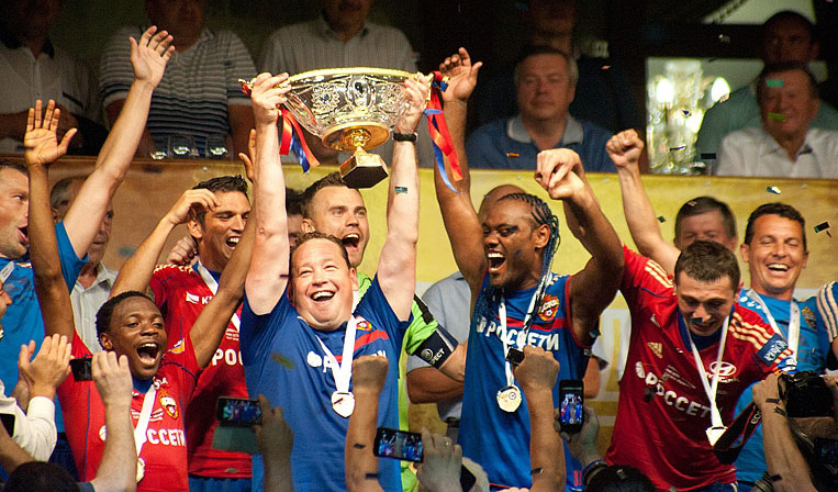 CSKA Moscow celebrates Russian Super Cup 2013 victory